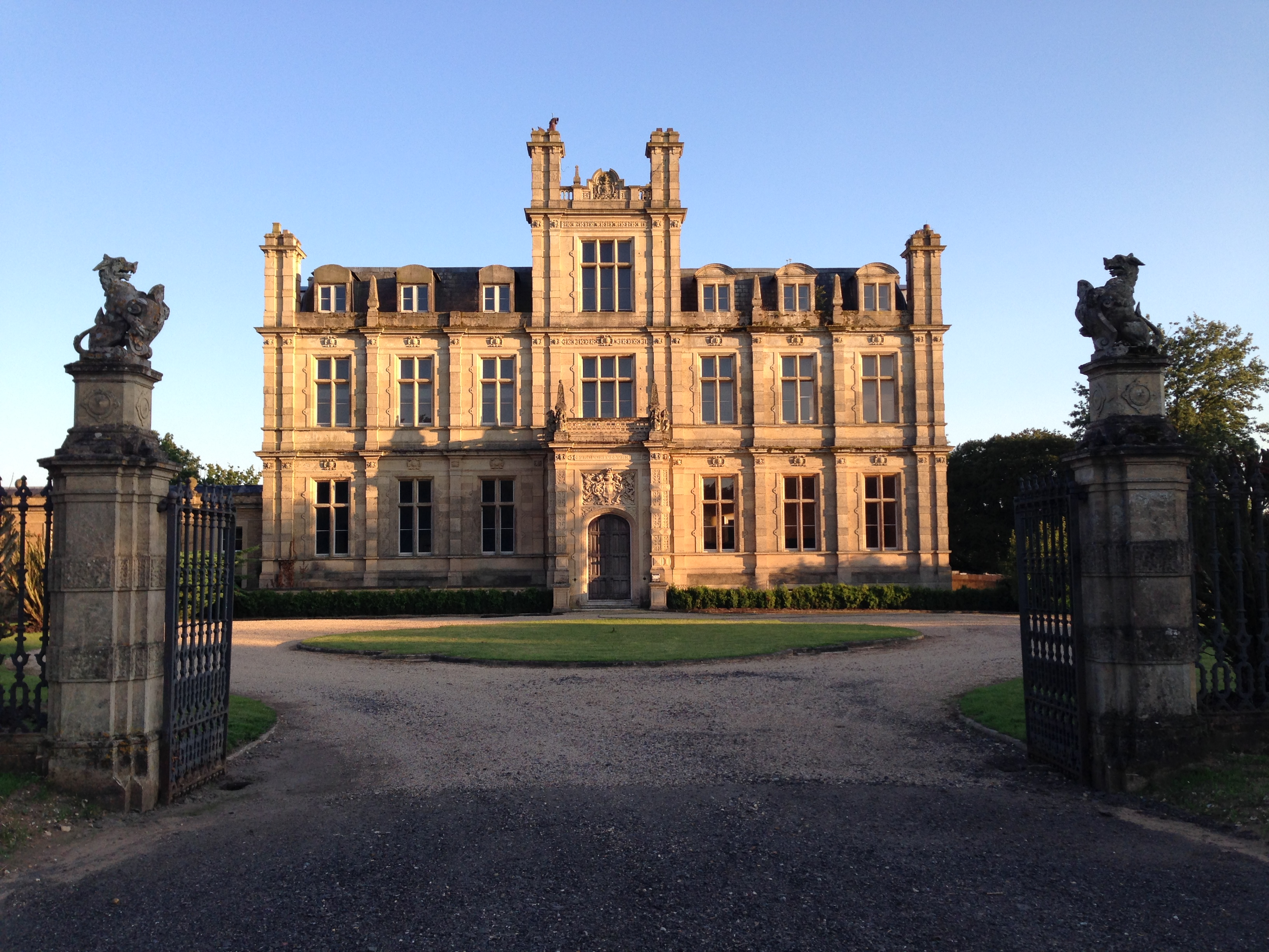 Bylaugh Hall, built 1852. Norfolk, England. Designed by Charles Barry son of Downton (Highclere Castle) Architect Charles Barry